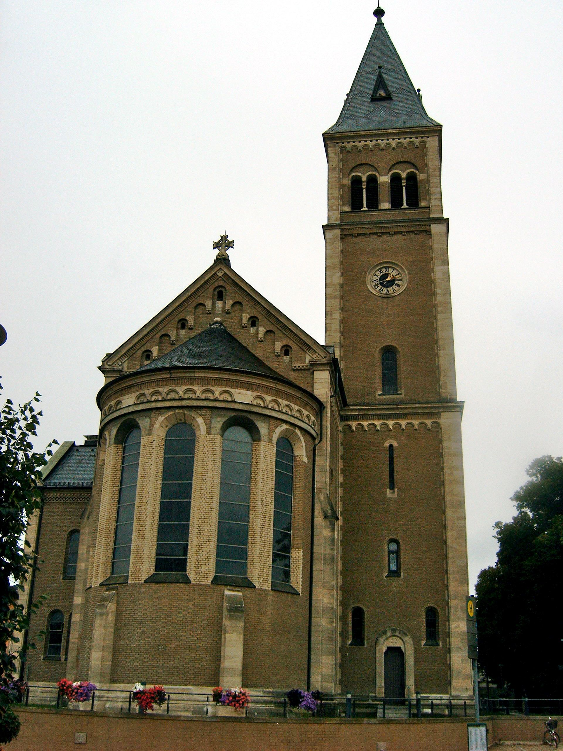 Saint Stephen’s church in Wasseralfingen, Aalen, Germany